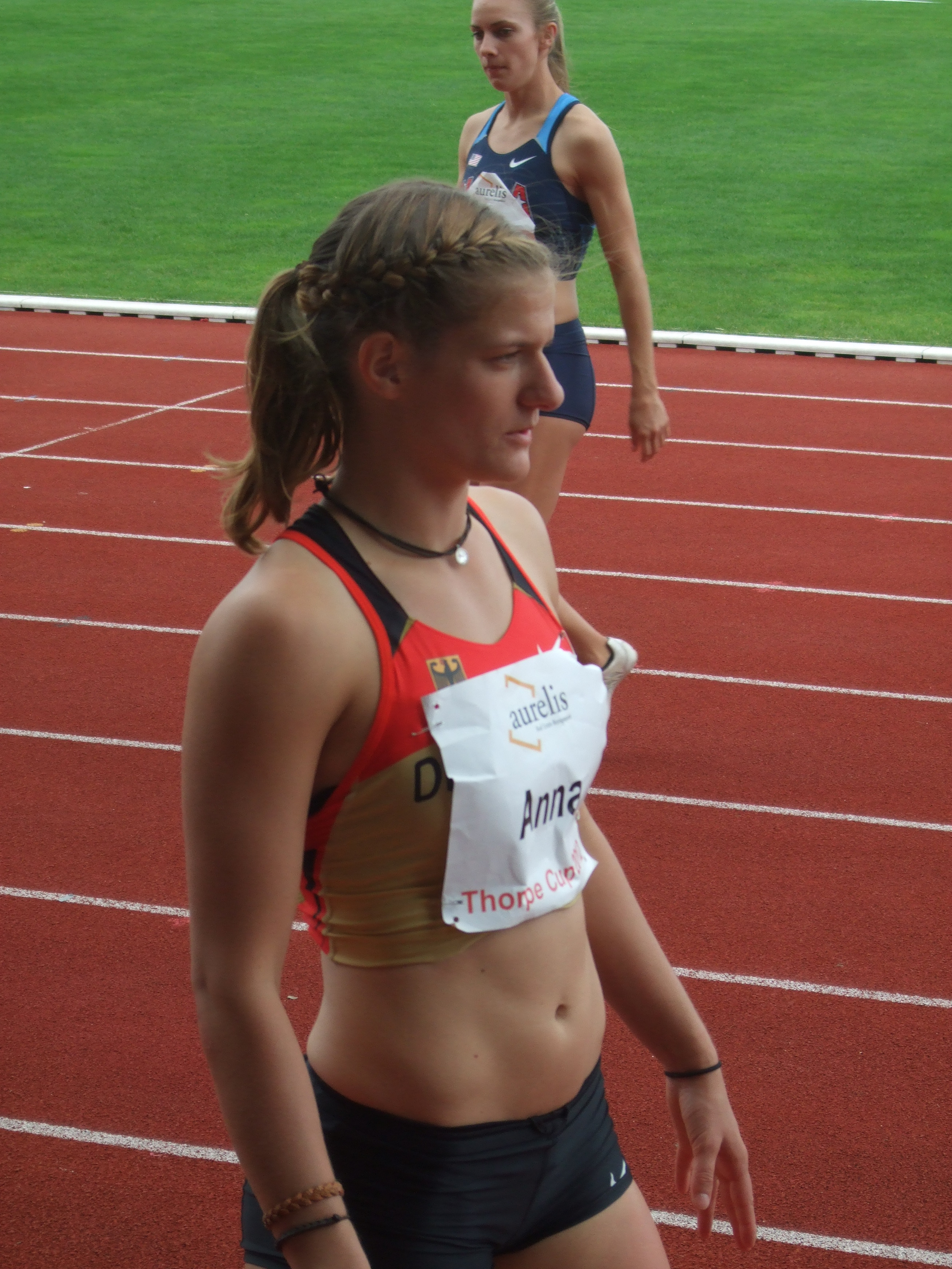 The heptathlete Anna Maiwald competing in the long jump at the 2012 Thorpe Cup